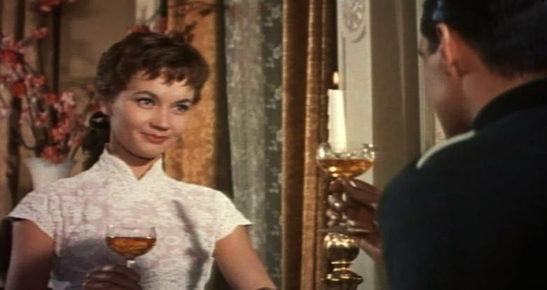 Liselotte Pulver & John Gavin (back) in A Time to Love and a Time to Die - trailer (cropped screenshot)